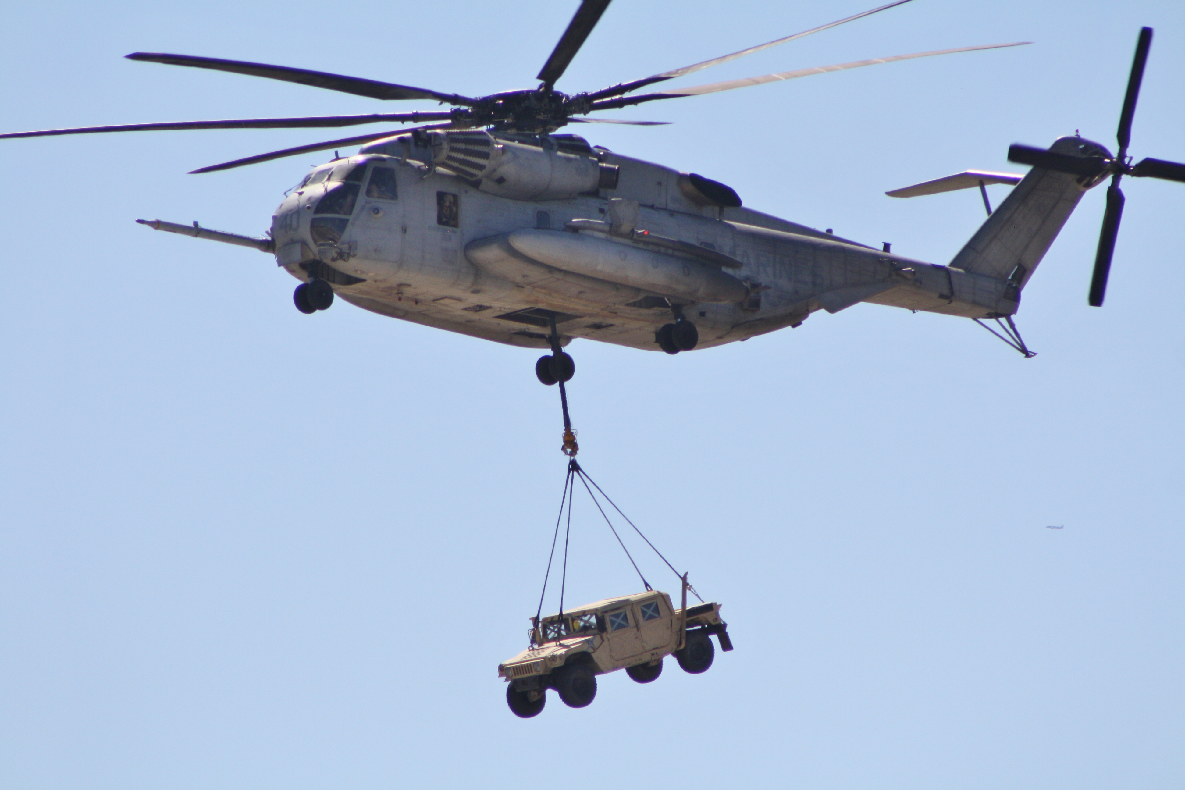 H-53E slung load hummer MAGTF demo 2014